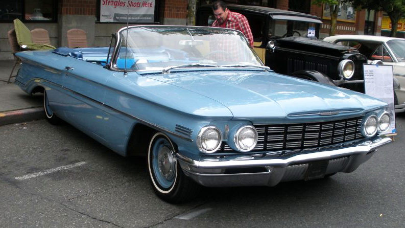 1960 Oldsmobile Dynamic 88 convertible, Seattle, Washington